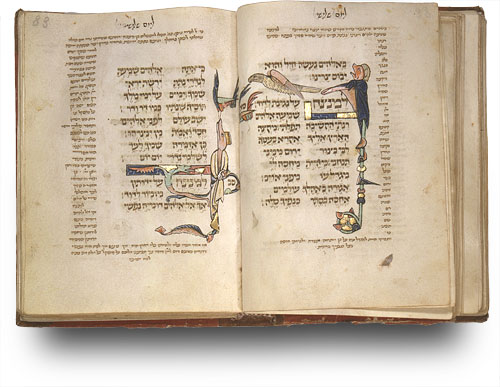 Psalm 61 (fol 82b) - A human figure with a dog's face raises his head, with his mouth open and arms stretched forward. Above the text an eagle flies towards the left. The figure illustrates v.2 (1), 'Hear my cry, O God, listen to my prayer'. The image of the large bird flying translates the longings of the Psalmist, v.5 (4), 'Oh to be safe under the shelter of thy wings!' Psalm 62 (fol. 83a) - 'Only for God doth my soul wait in stillness: From Him cometh my salvation,... How long will yet set upon a man, That ye may slay him, all of you...'